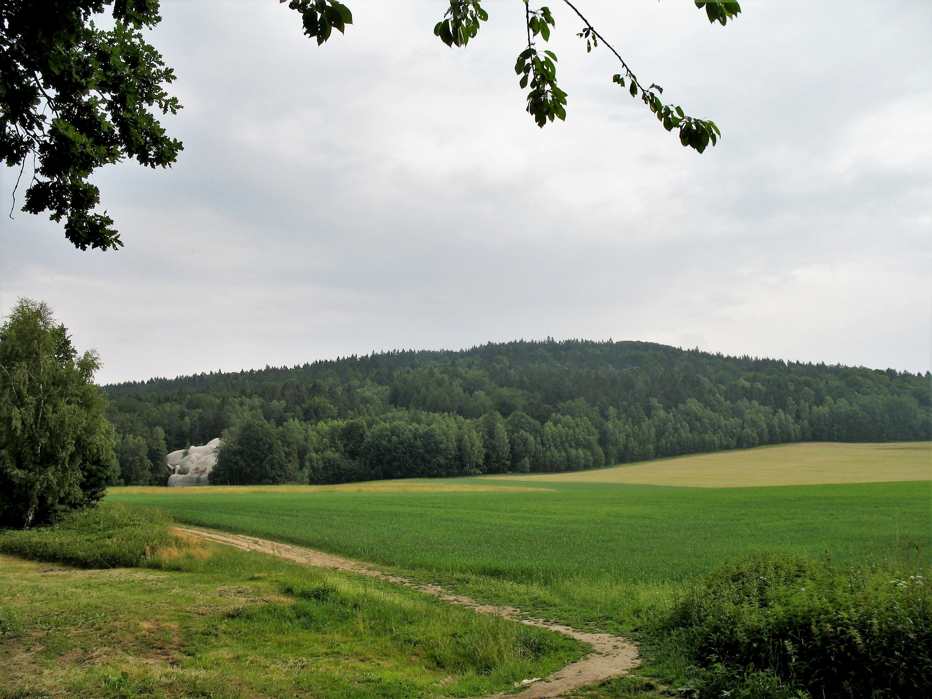 Vysoká Hill in Lusatian Mountains, Northern Bohemia